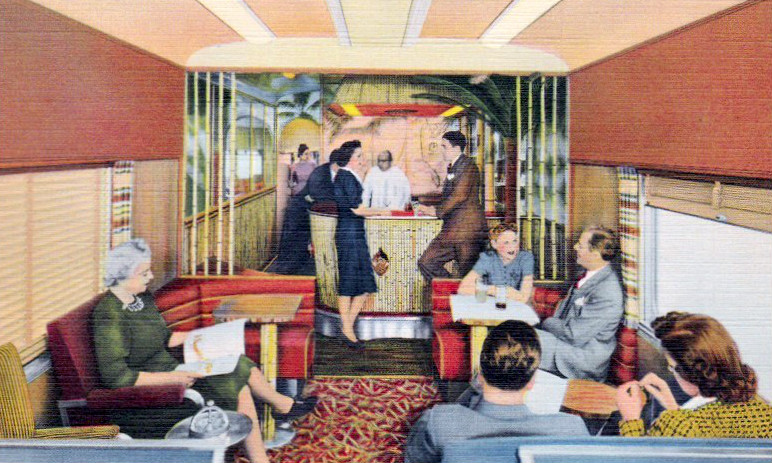 Postcard photo of the Bamboo Grove combination lounge and observation car of the Illinois Central Railroad's City of Miami.